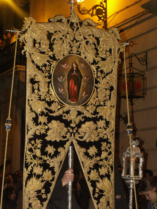 Sinelabe Concepta